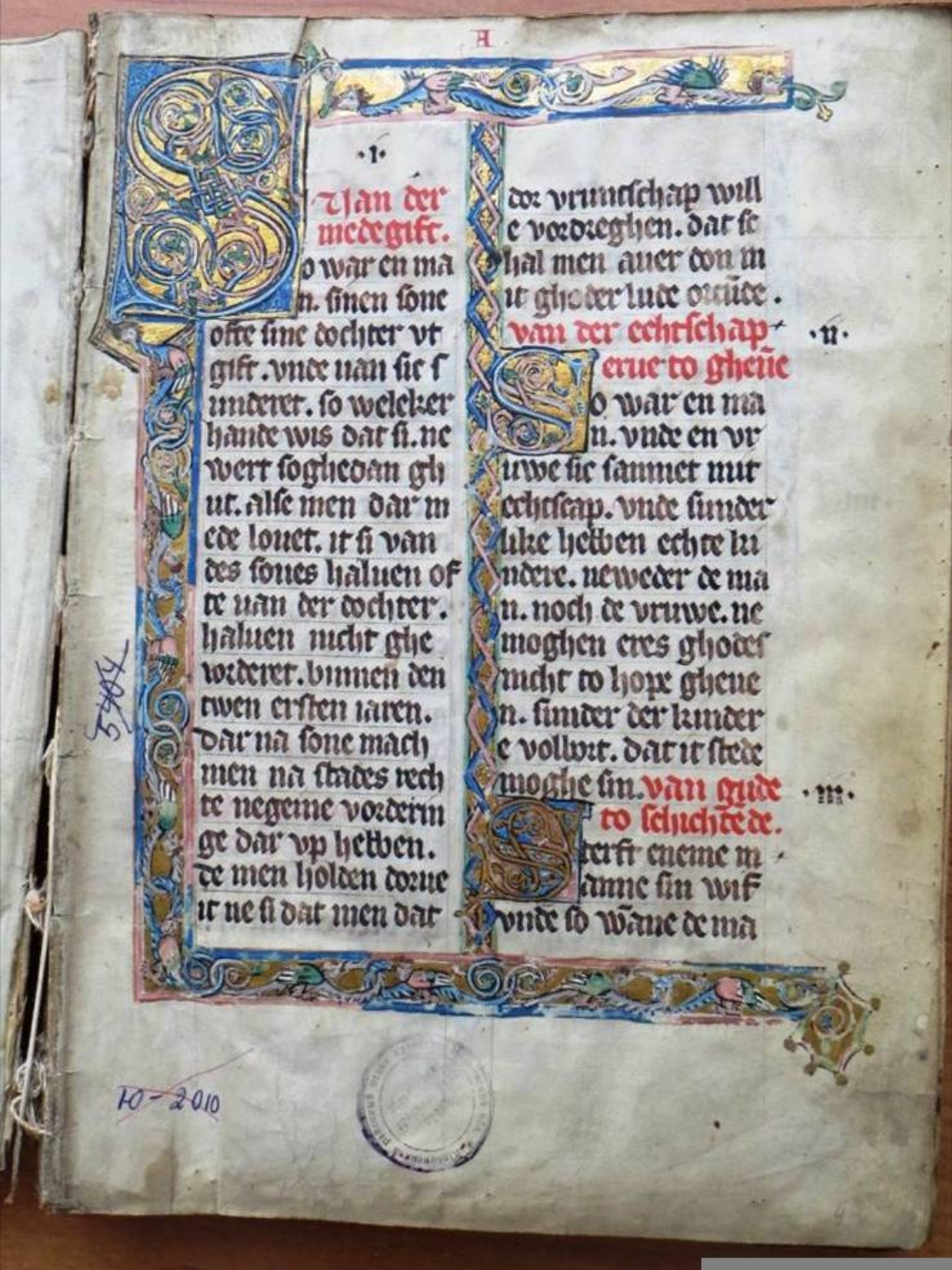 The "Bardewik Codex" of Lübeck Law, written in 1294, formerly Archiv der Hansestadt Lübeck Hs. 734, missing since,1945, 2014 rediscovered in the collection of the Museum in Yuryevets, Ivanovo Oblast (Russian: Ю́рьевец), Folio 1r